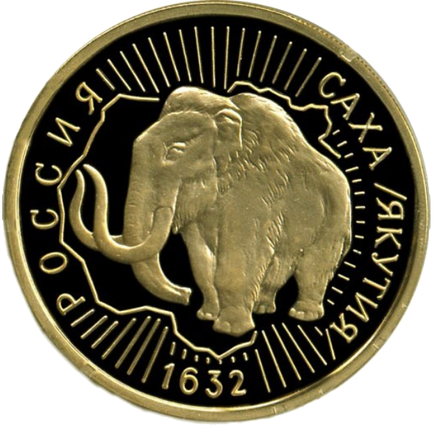 Commemorative coin - 350th anniversary of the voluntary entry of Yakutia into Russia